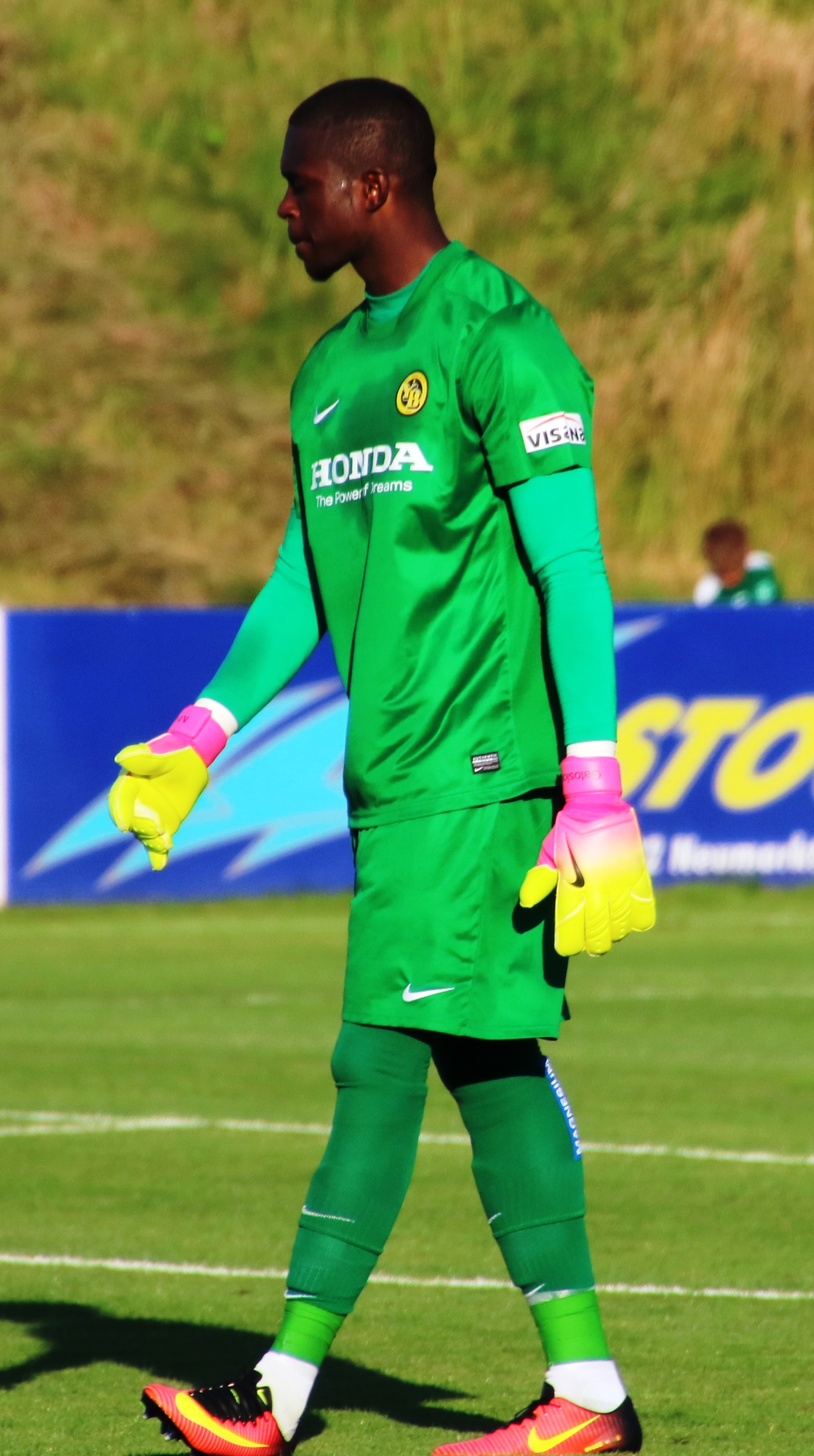 friendly match preseason